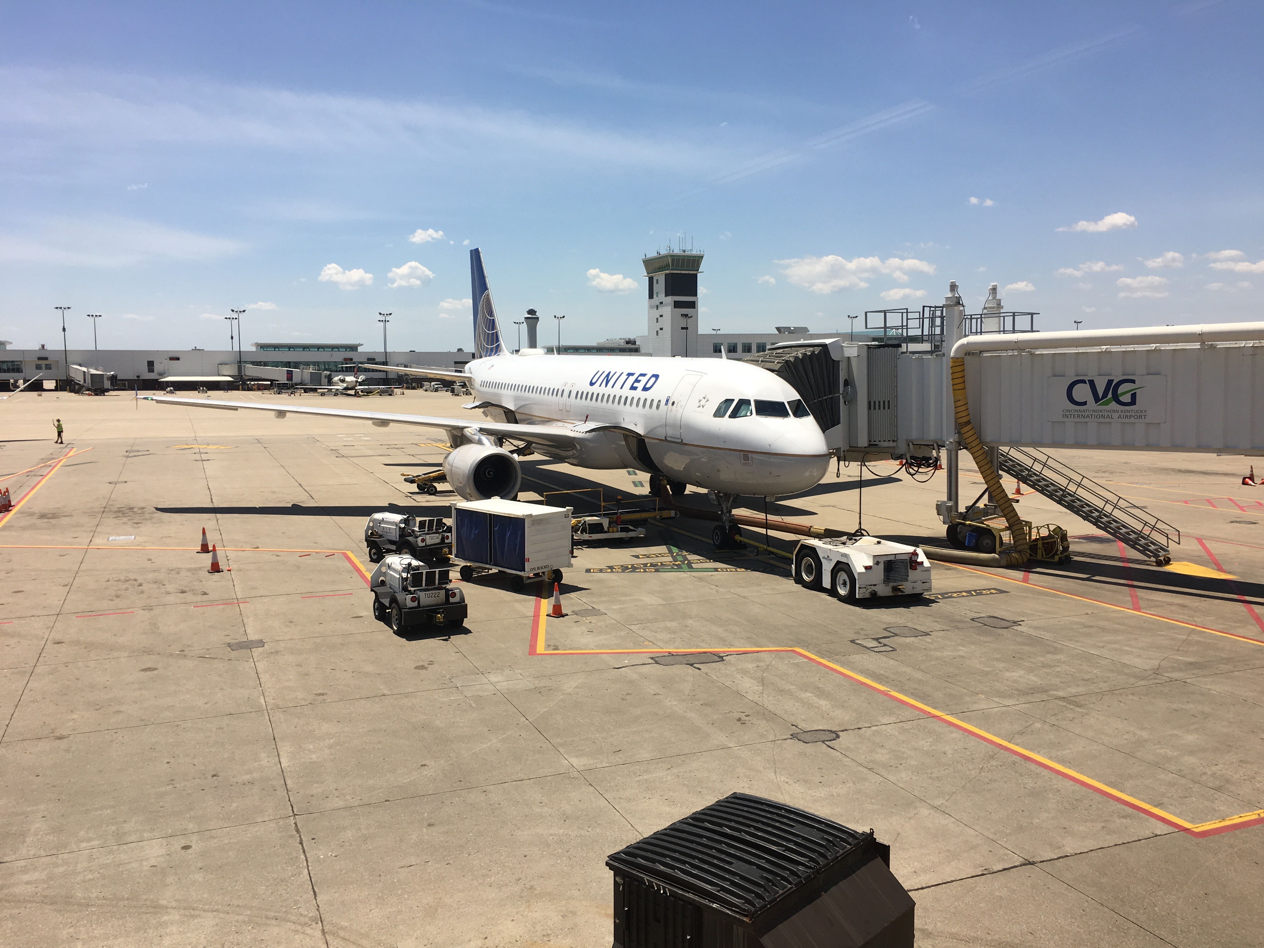 United A319 at Concourse A